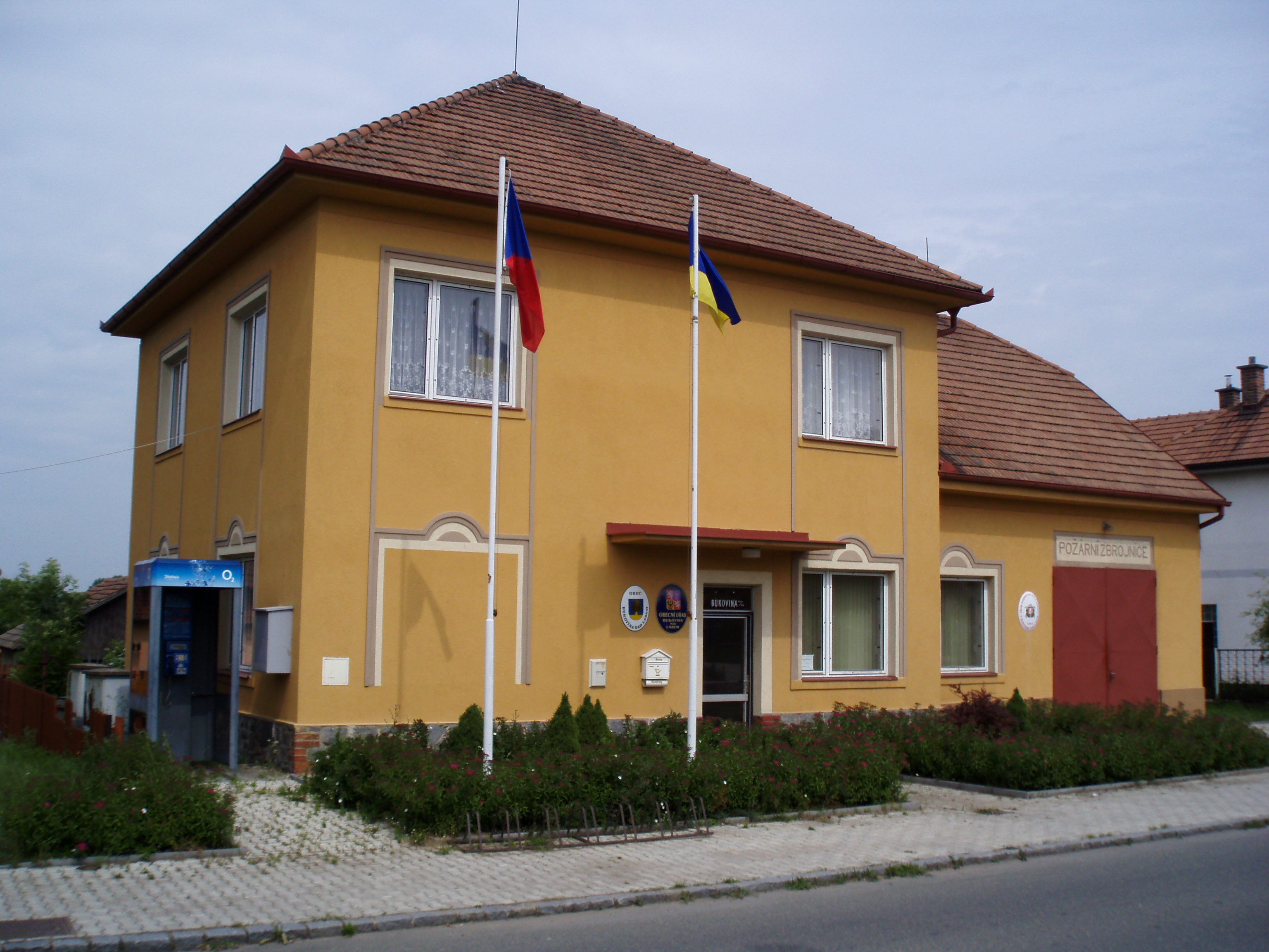 Local Authority in Bukovina nad Labem, Pardubice District, Czech Republic